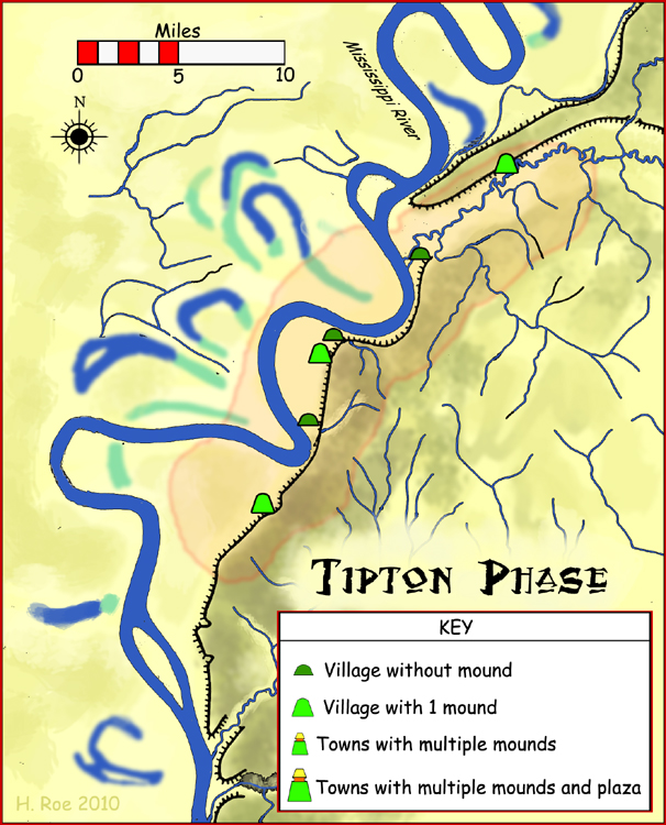 A map showing the Tipton Phase, a Mississippian cultural component, and its associated sites in the region of modern day Tipton, Lauderdale and Shelby Counties during the time of first contact with Europeans, at the arrival of the Hernando de Soto Expedition.